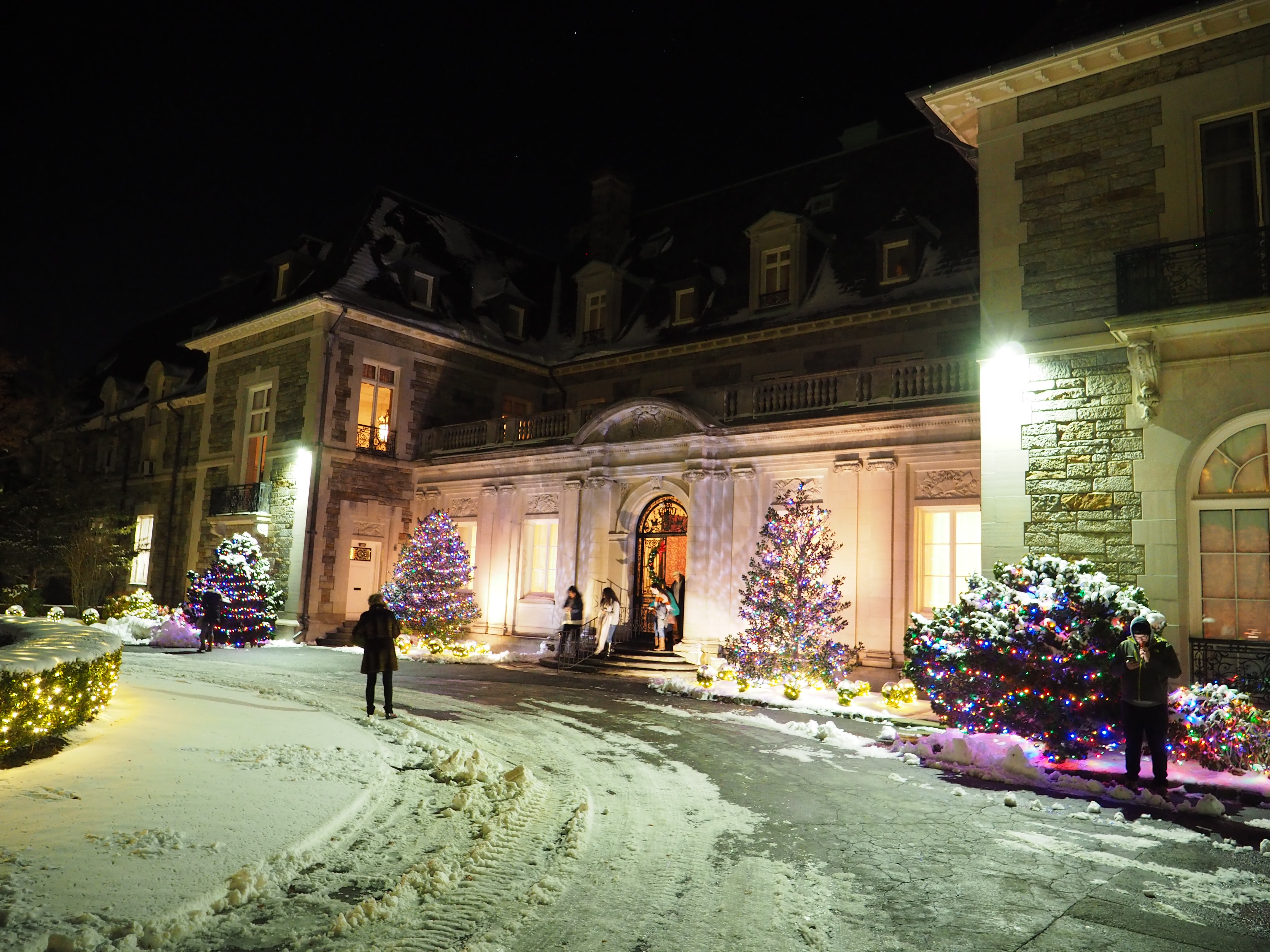 Snowy view of the front facade, 12/3/2019